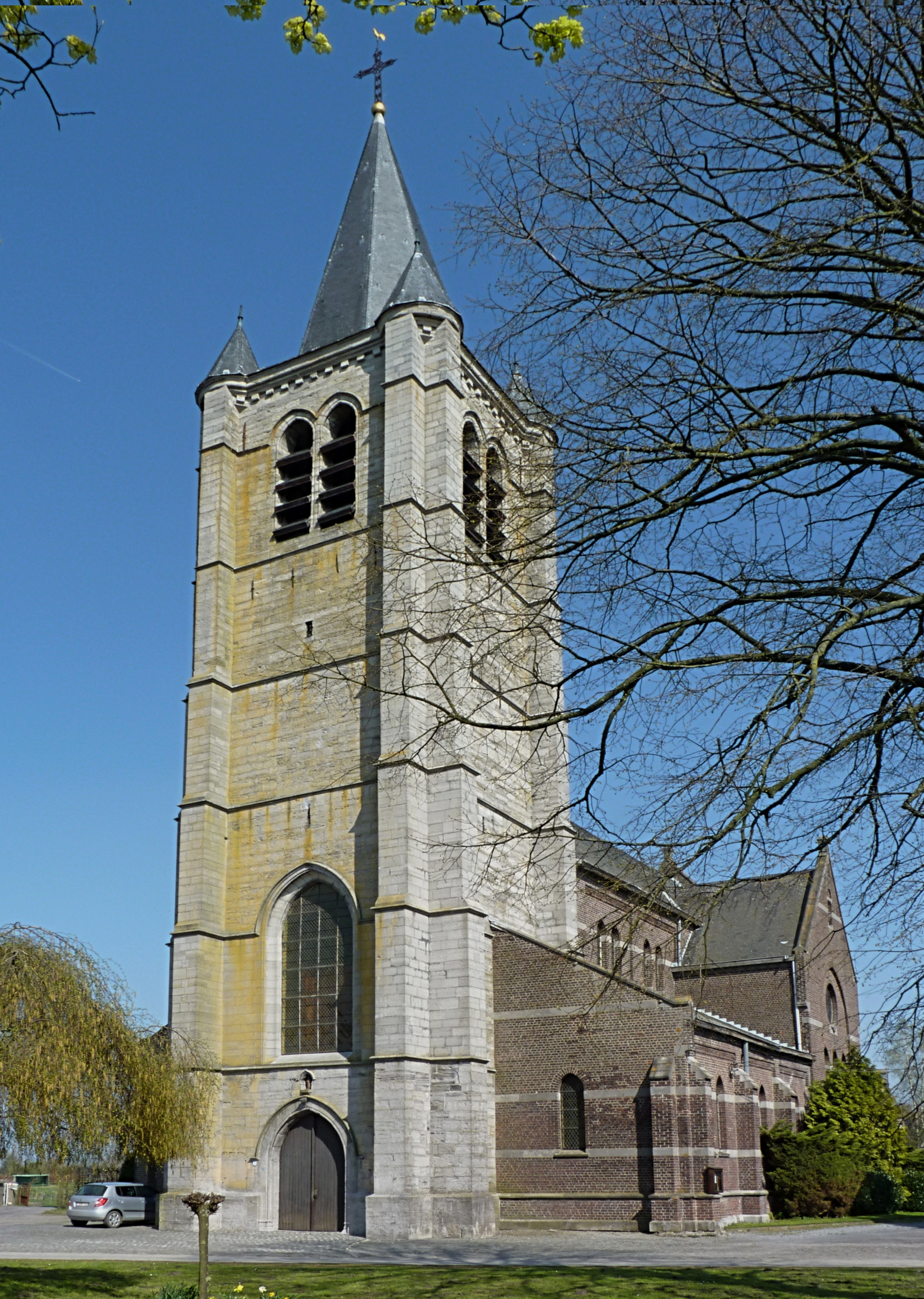 Churh Saint Anthony the Hermit in Pottes, Belgium.